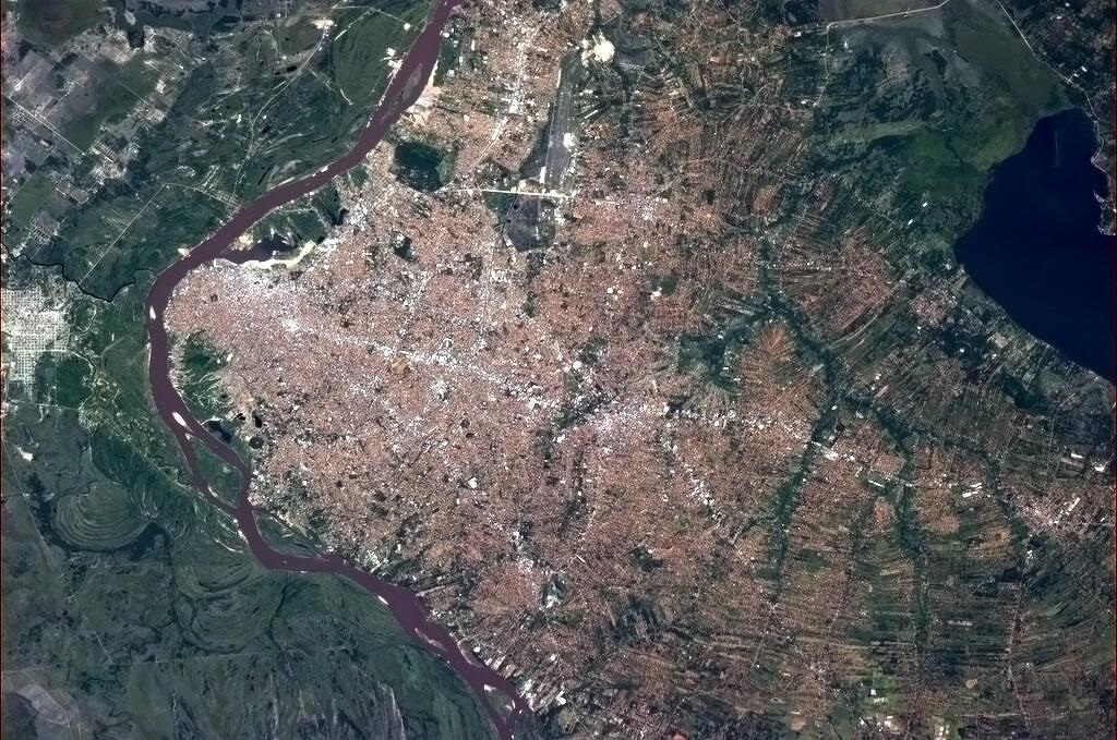 "Asuncion, on the left bank of the Paraguay River. I wonder if the red tinge of the river mud and roofs are related?" Caption by astronaut Chris Hadfield aboard the International Space Station.